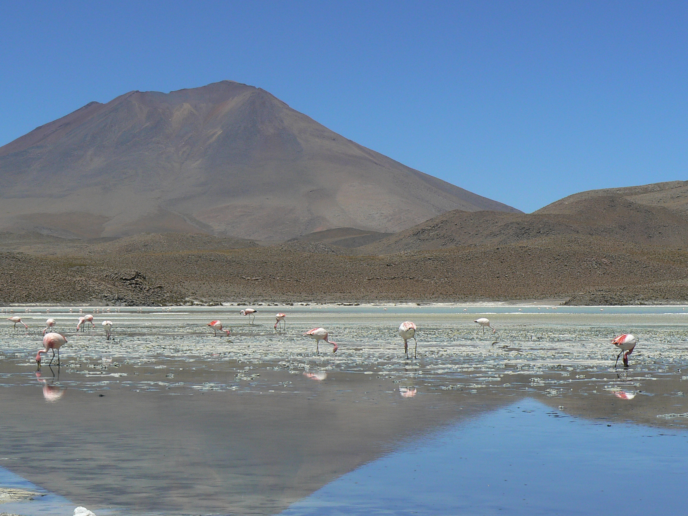 James's Flamingos (also known as the Puna Flamingos) and an Andean Flamingo (in the background; only bird with its beak out of the water). At Laguna Hedionda, a lake in the Potosí Department, Bolivia.